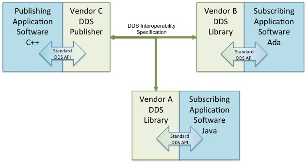 Notional diagram OMG Data Distribution Service Interoperability